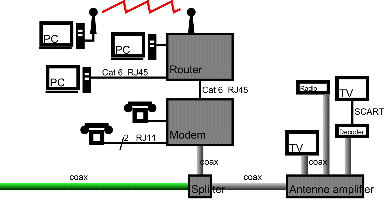 Connections to coax cable